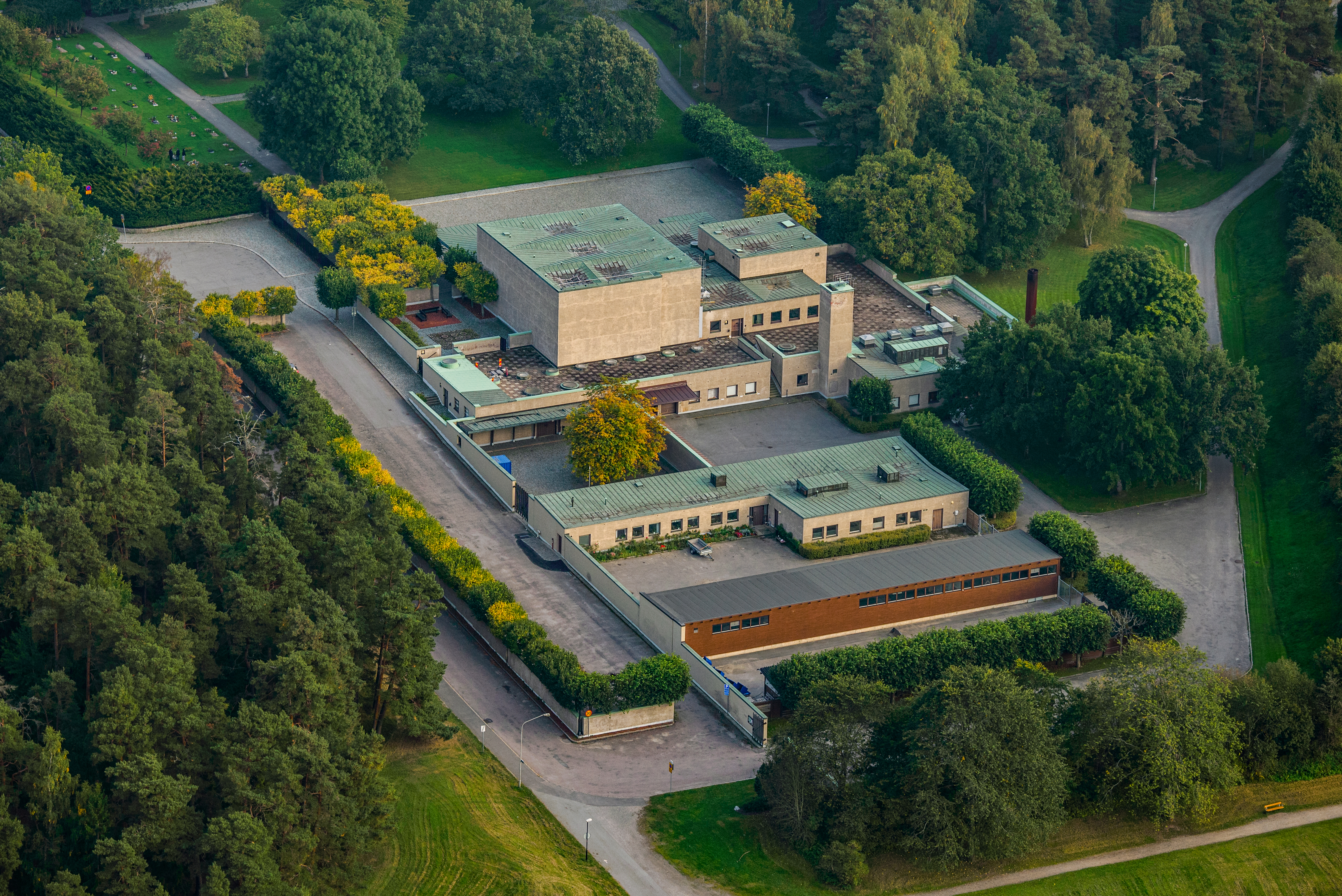 Råcksta krematorium.